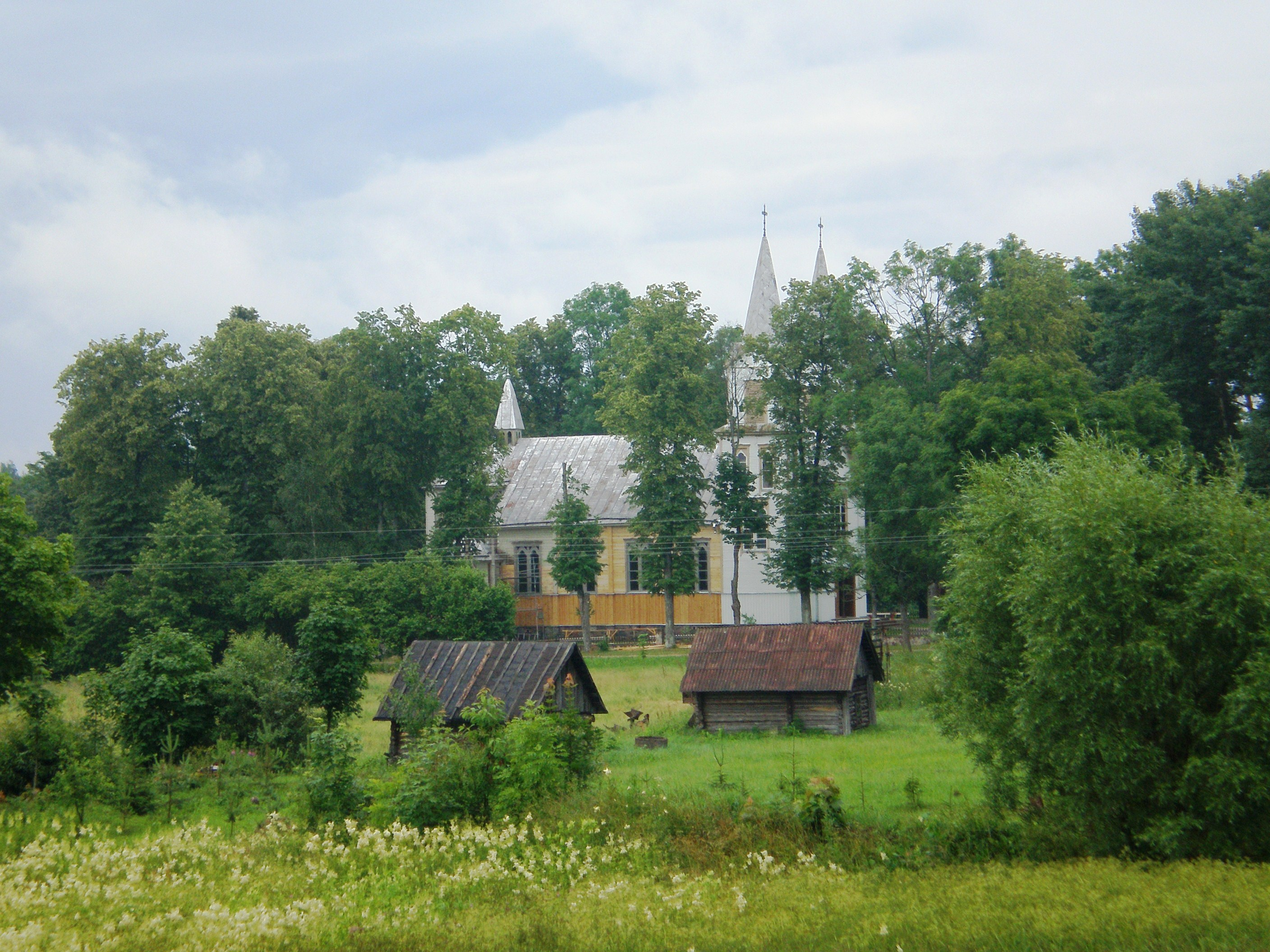 Kirdeikiai village and church in Utena district, Lithuania